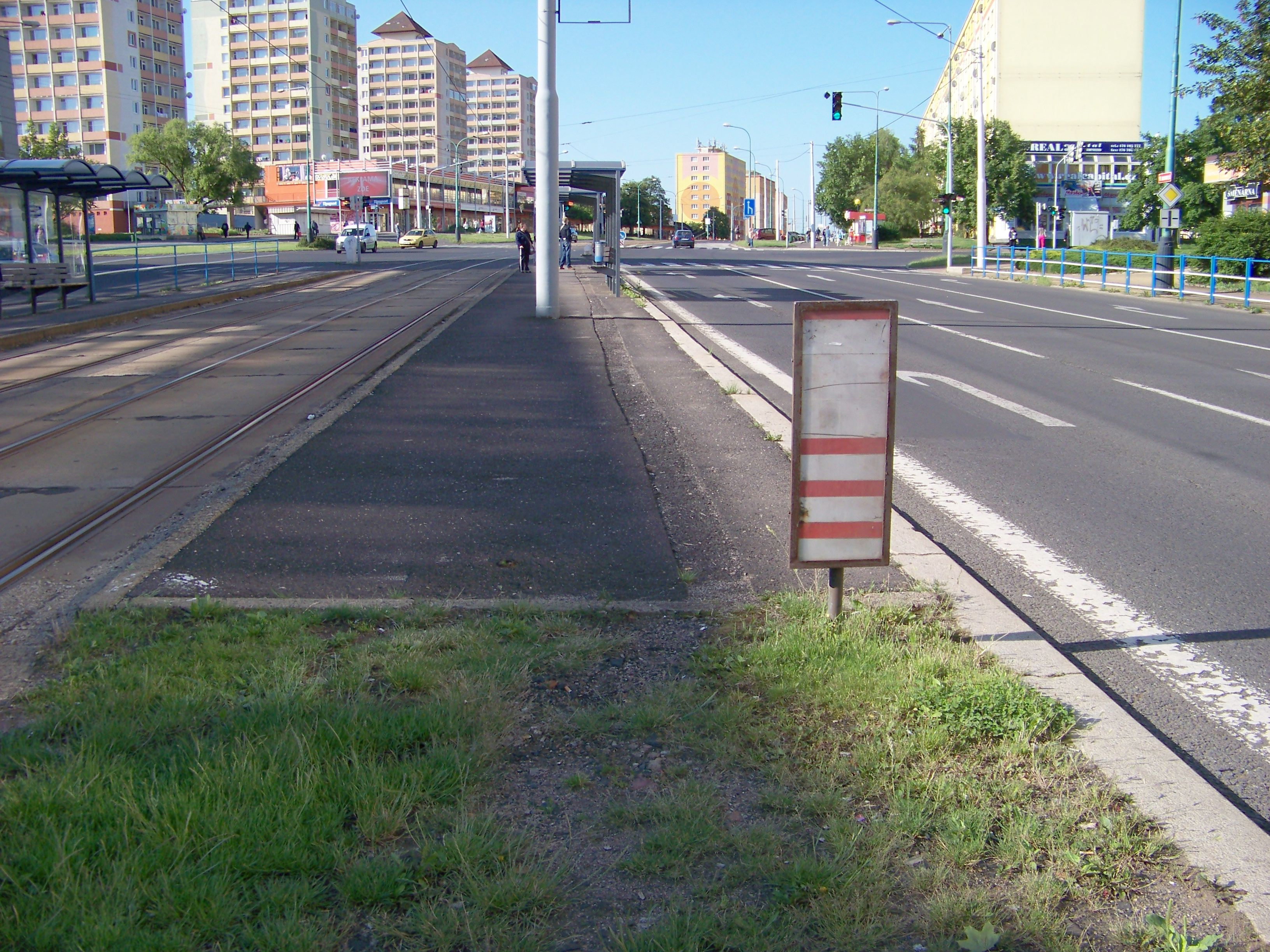 Most, Most District, Ústí nad Labem Region, Czech Republic. Tř. Budovatelů, tram stop "Most, 1. nám.".